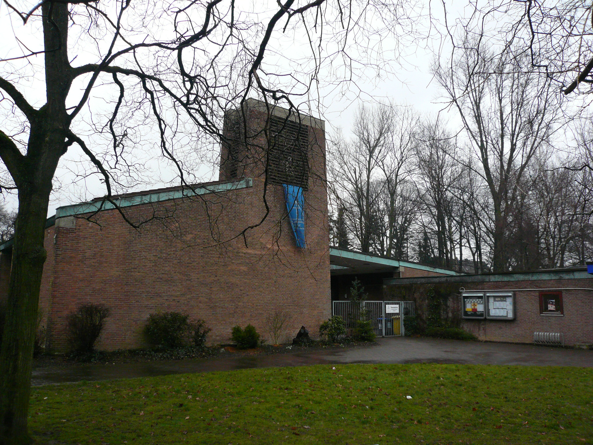 St. Thomas church - old catholic church, Düsseldorf